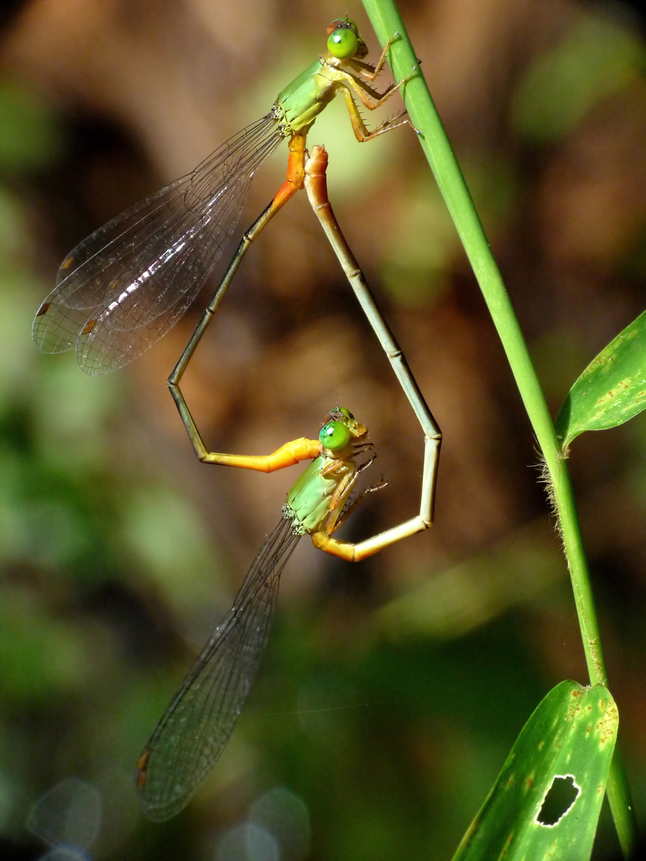 Ceriagrion cerinorubellum is a species of damselfly in the family Coenagrionidae. It's commonly known as the Bi-coloured damsel or Orange-tailed marsh dart. They attack and feed on other species of smaller damselflies. Its bluish green head and orange base and the tip of the abdomen is quite distinctive and cannot be mistaken for other species. The female has a similar appearance but has slightly a little darker marking. Taken at Kadavoor, Kerala, India.